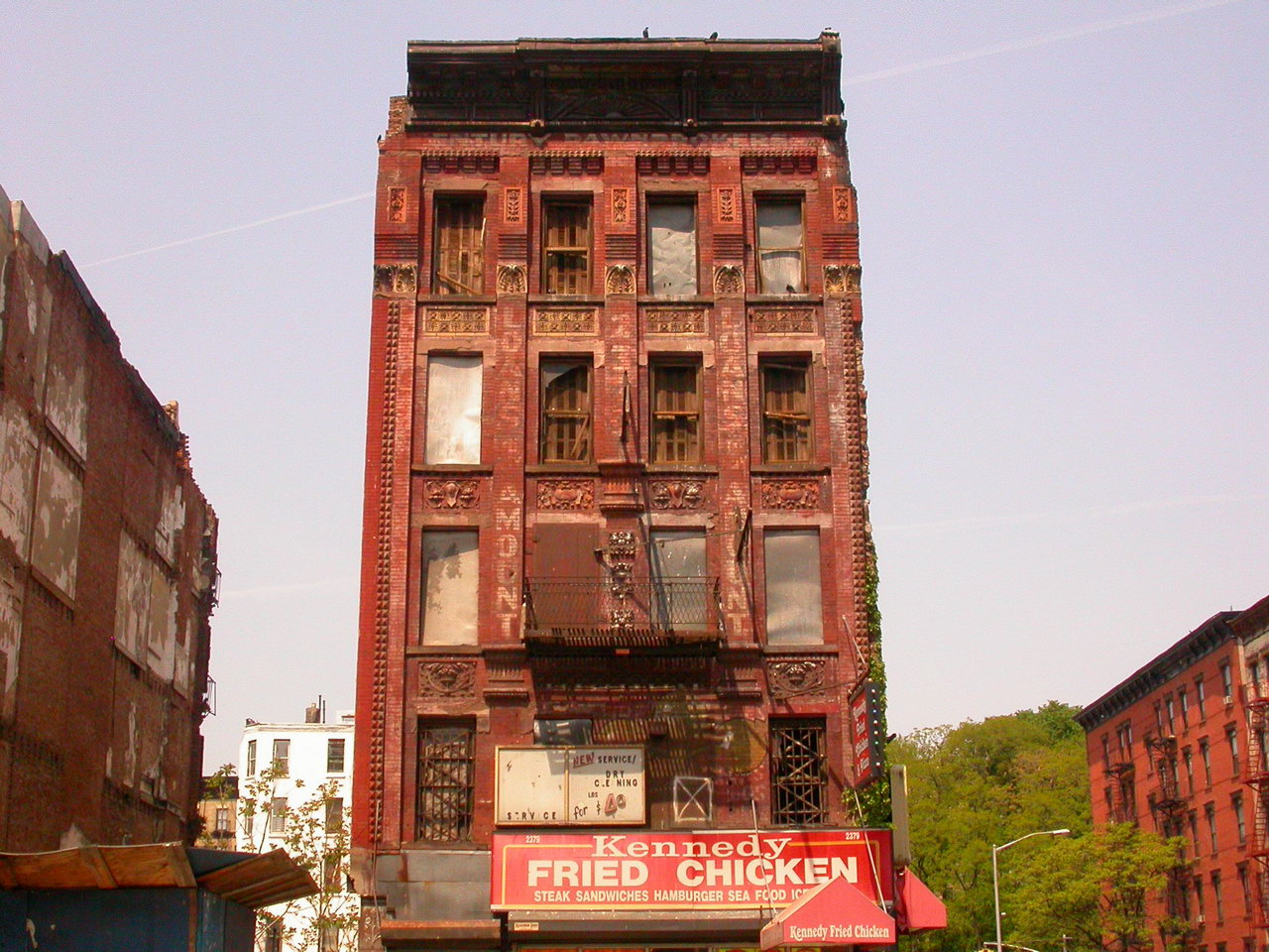 One of the few condemned buildings that last in Harlem, 2379 Frederick Douglass Boulevard, photographed on May 14, 2005.